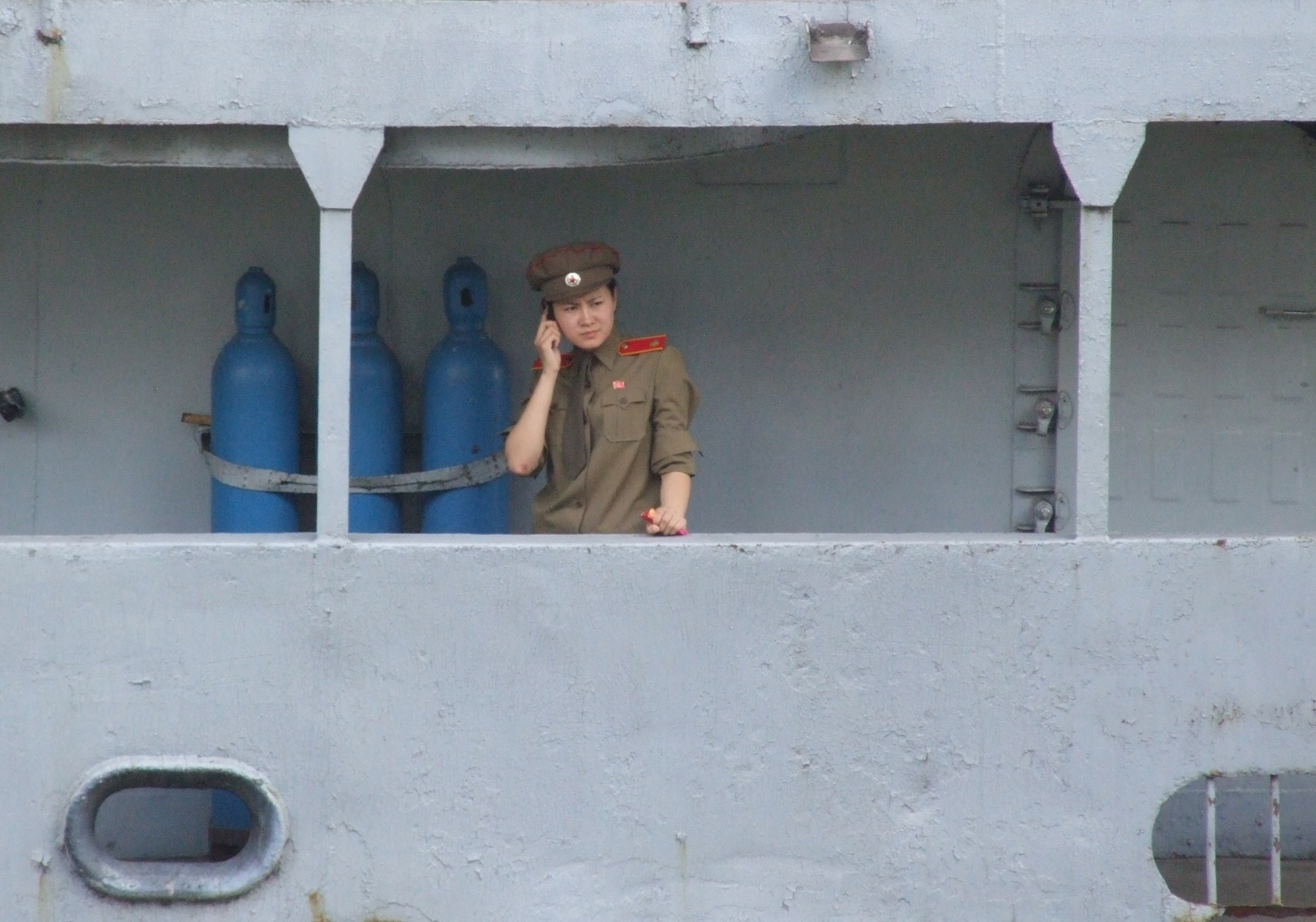 USS Pueblo (AGER-2) in Pyongyang, North Korea